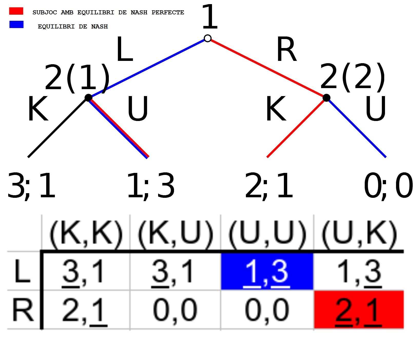 Original explanation: An image that shows the difference between strategies in subgame perfect Nash equilibria and plain NE's. The first player chooses Left or Right and the second player then chooses to be kind or unkind, however, following R unkind is a non-credible threat by 2. This can be used as a very simple example of dynamic inconsistency in some Nash equilibria. The extensive form game is made with the latex-package egameps, furthermore it's tweaked in Inkscape and the table is pasted in from a simple OOo screencap - if someone feels like vectorizing the normal form representation it's just fine with me.